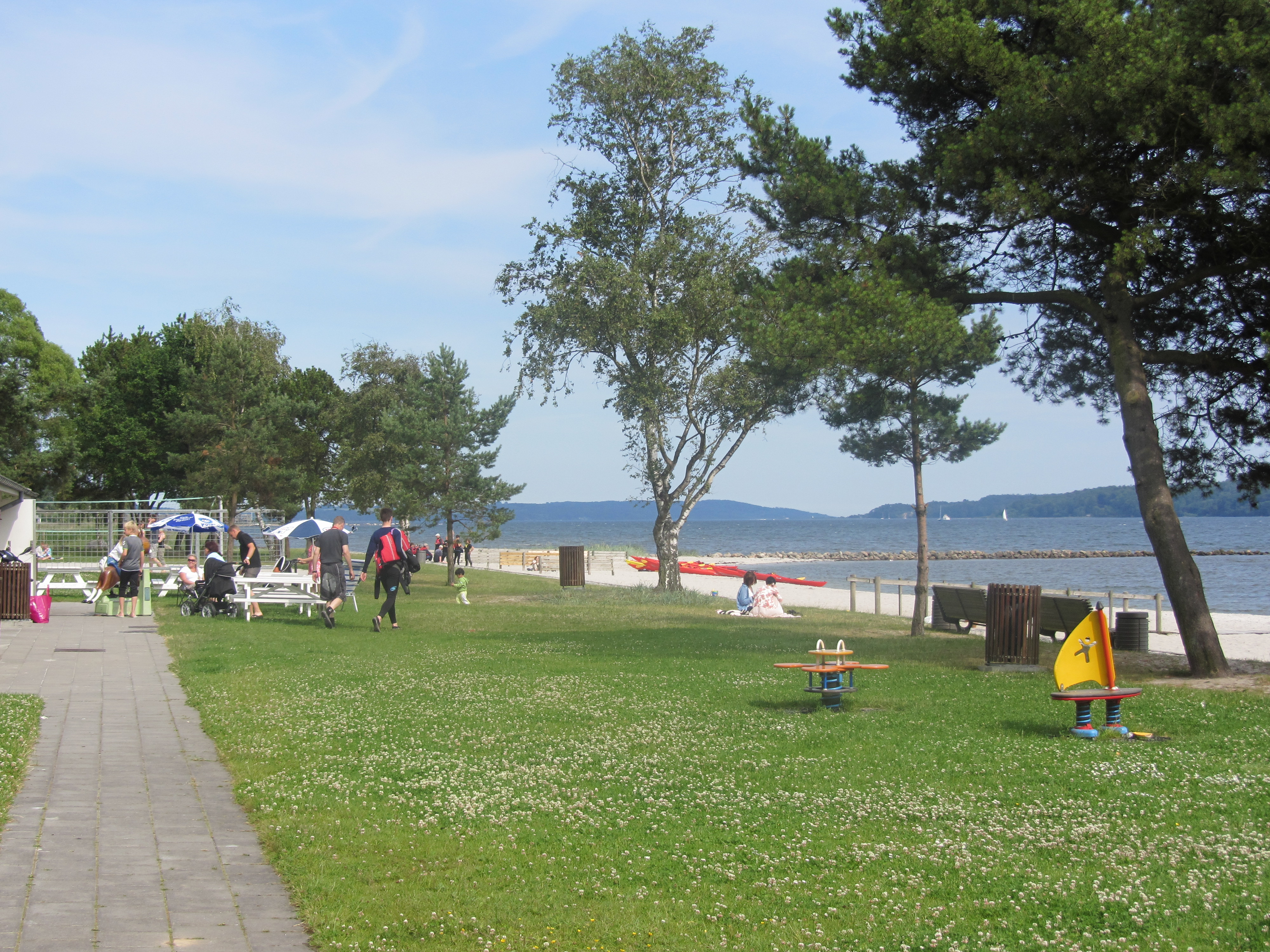 Albuen Beach, Vejle, Denmark